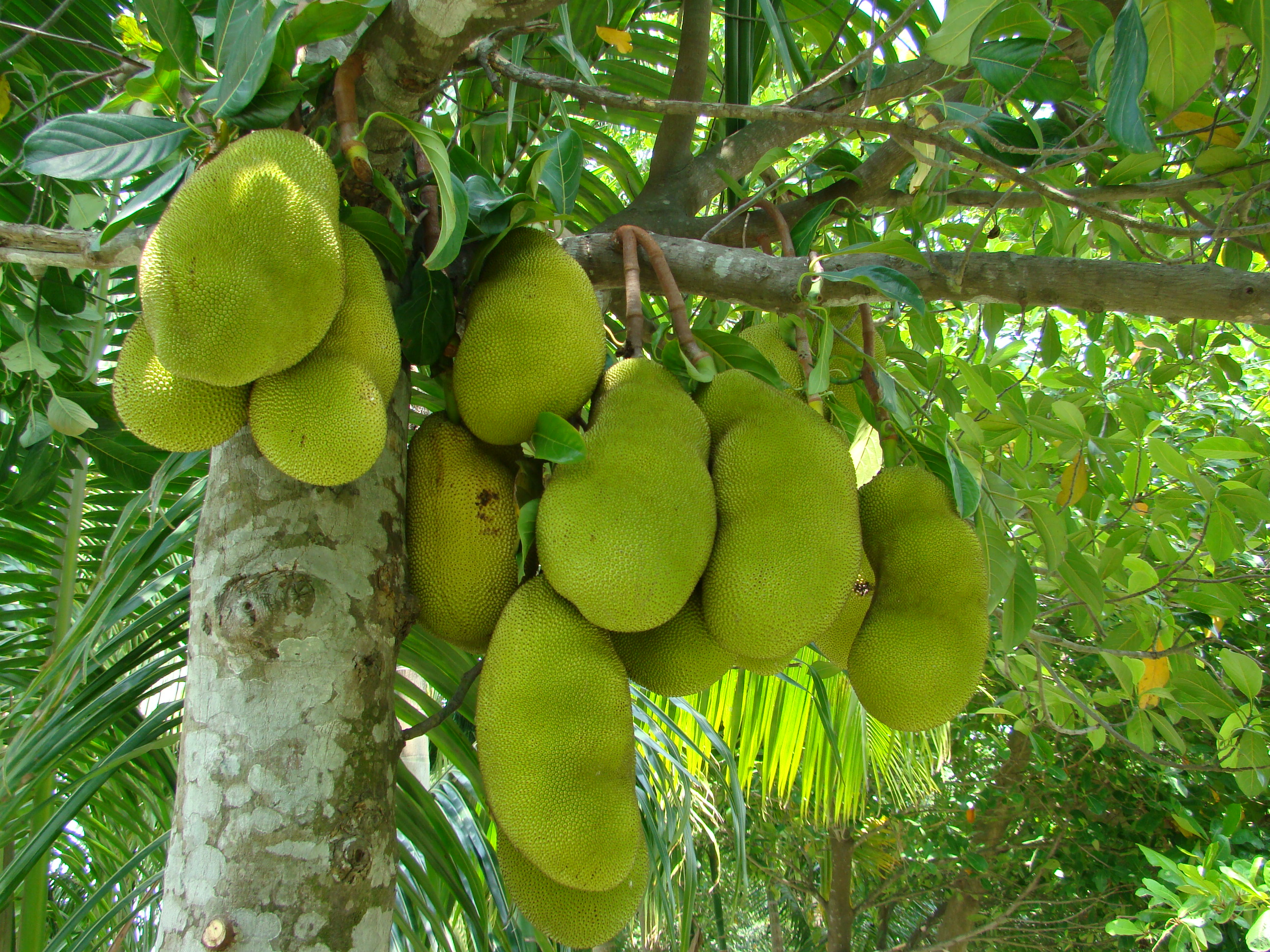 Jackfruit, the national fruit of Bangladesh.